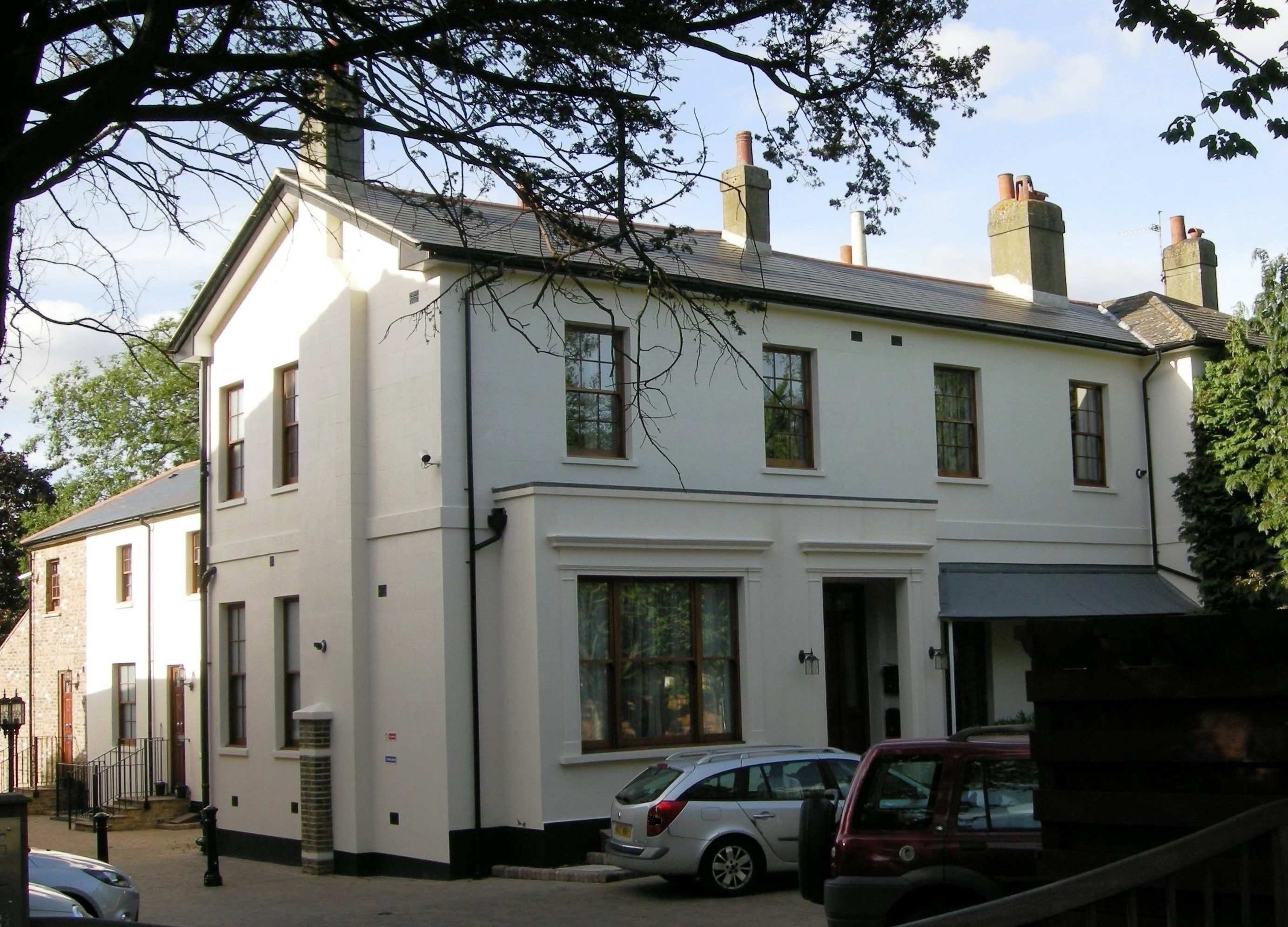 "Ashleigh", Addiscombe Road (close to junction with Clyde Road), Addiscombe, Croydon, Greater London. With its neighbour, "India", built in 1848 as accommodation for professors at Addiscombe Military Seminary.